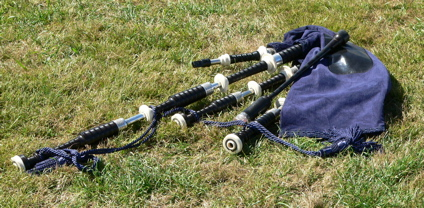 Bagpipes at the 2005 Pacific Northwest Highland Games. Photo is copyright © 2005 by James F. Perry.